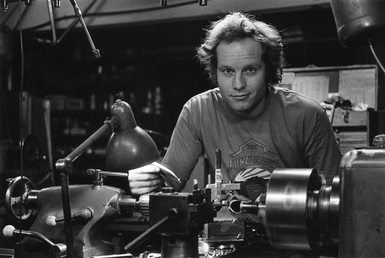 Joe Breeze in his machine shop, in Mill Valley, 1984